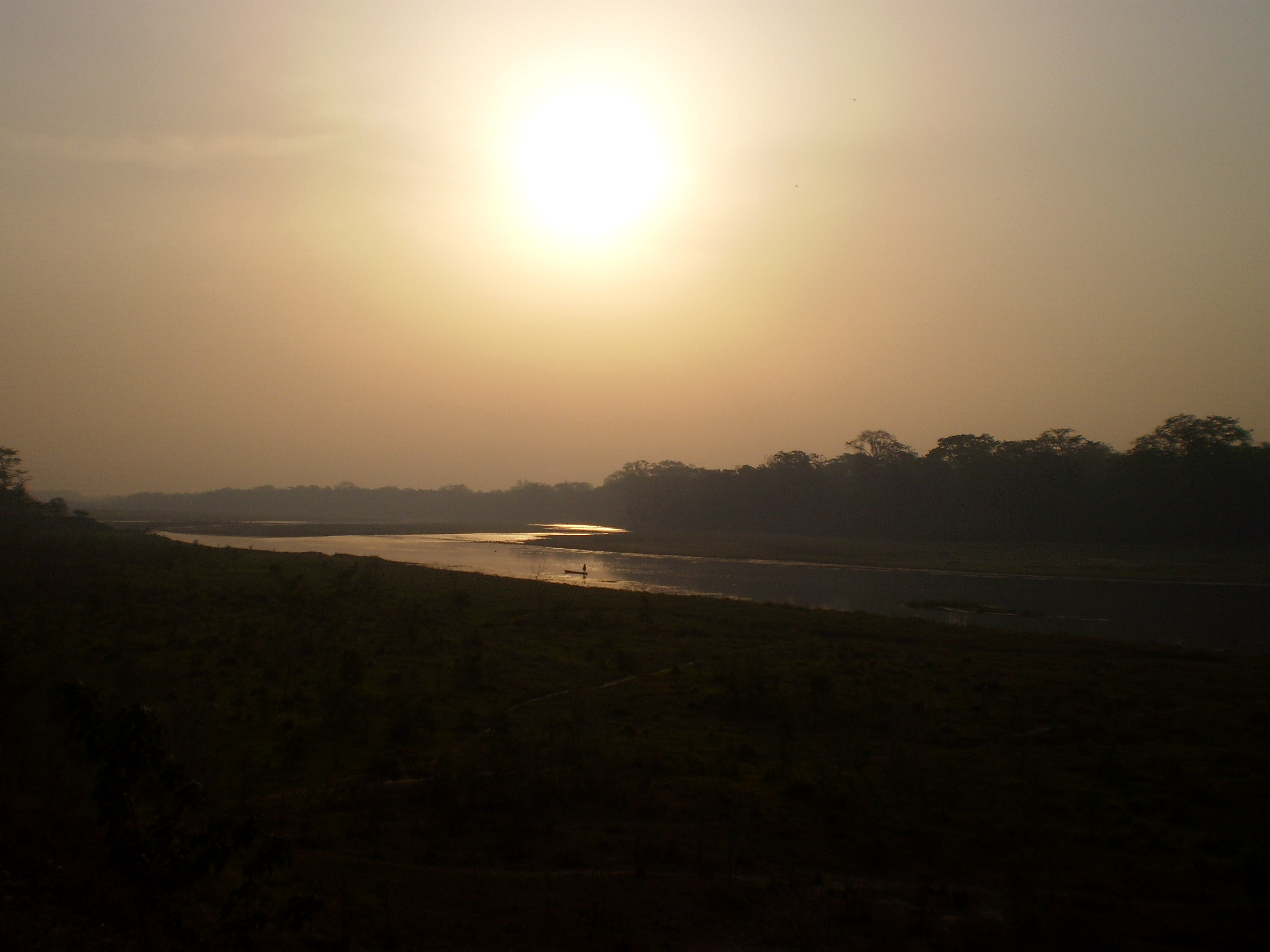 Rapti River morning view